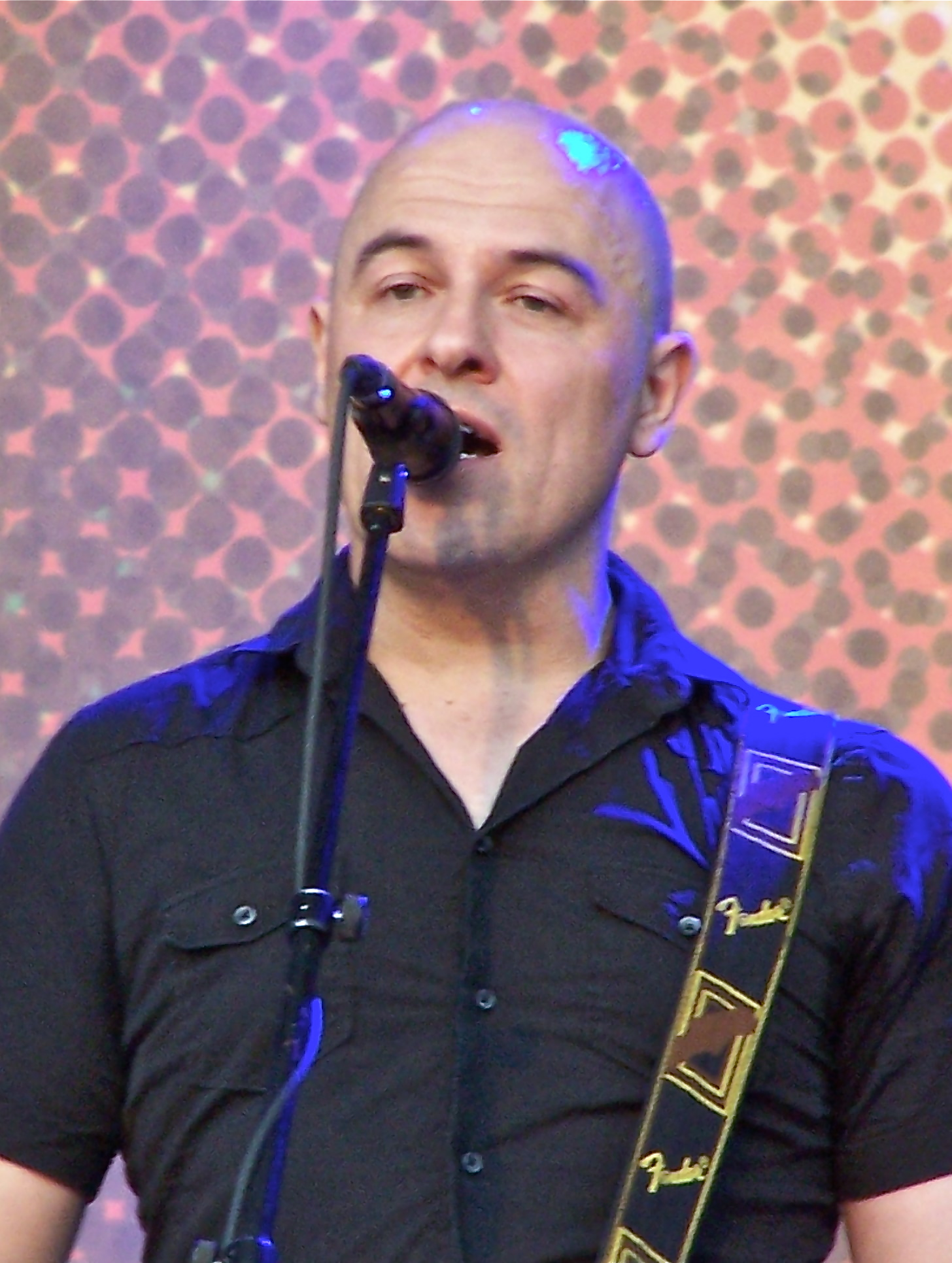 French singer Dominique A in july 2012 at Festival Fnac Live Paris